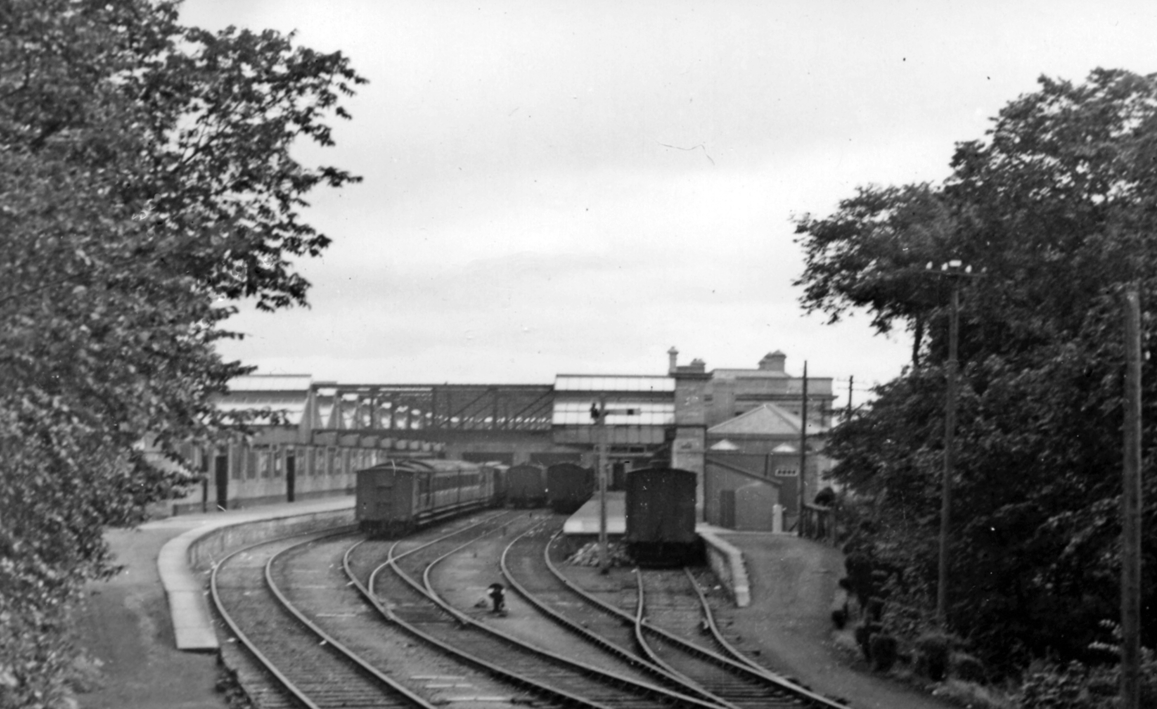 Entering Sligo station, 1948View eastward, approaching buffer-stops: terminus of ex-Midland Great Western main line from Dublin.